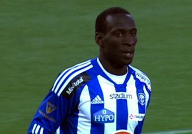 Dawda Bah HJK Helsinki